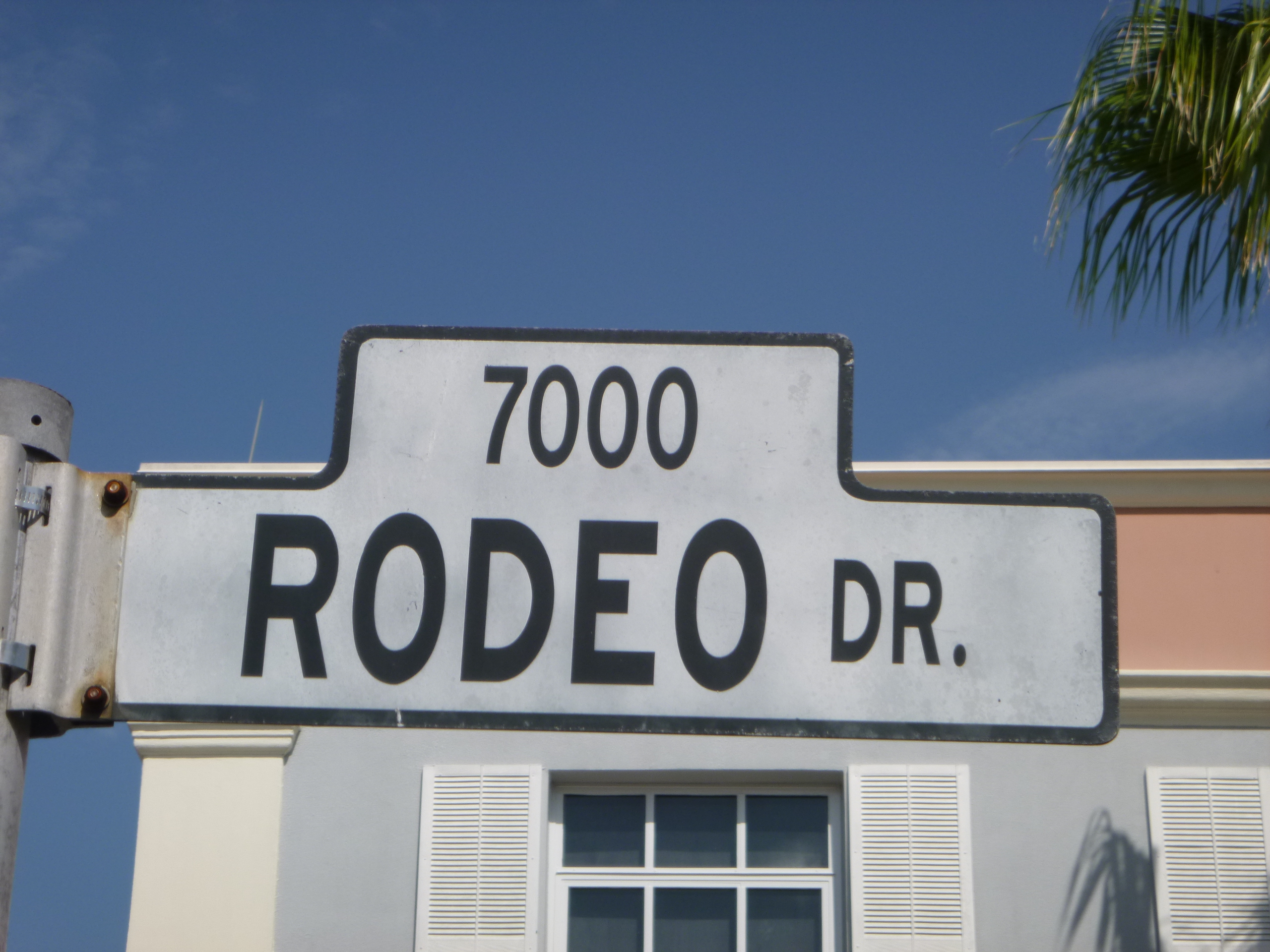 Rodeo Drive sign at Hollywood themed area, Universal Studios Florida